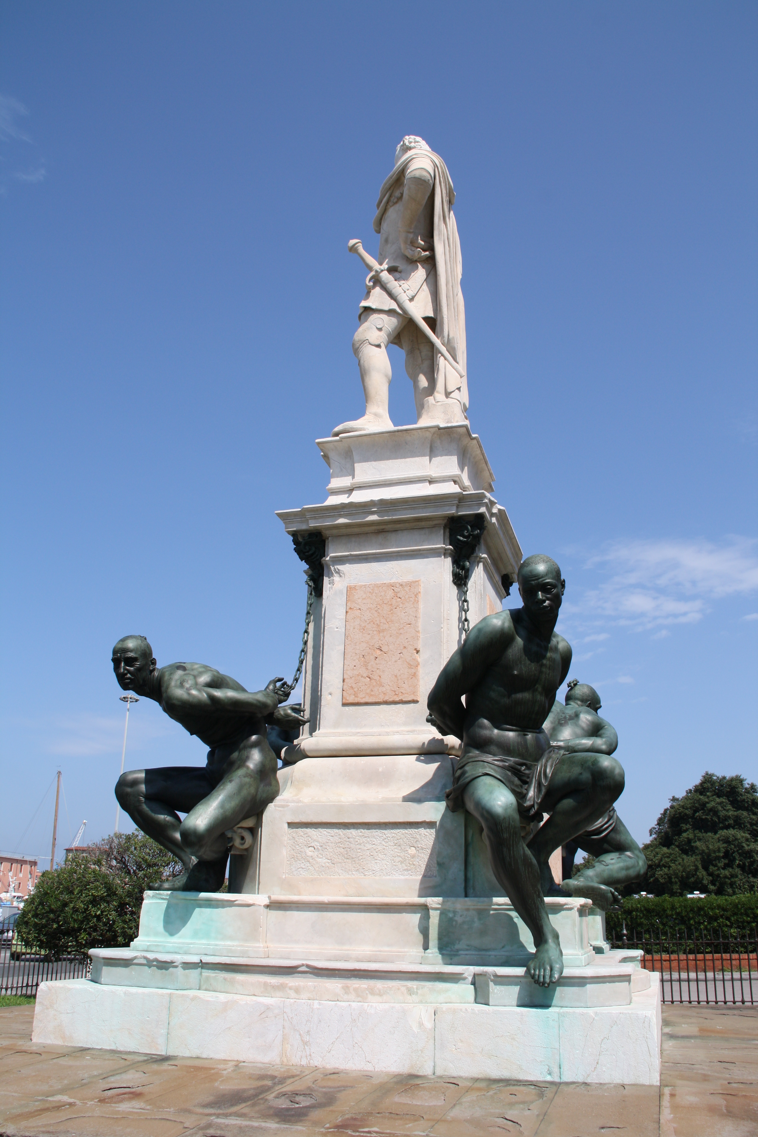 Italy, Livorno, Piazza Micheli, Monumento dei Quattro mori. Detail of the monument just restored.